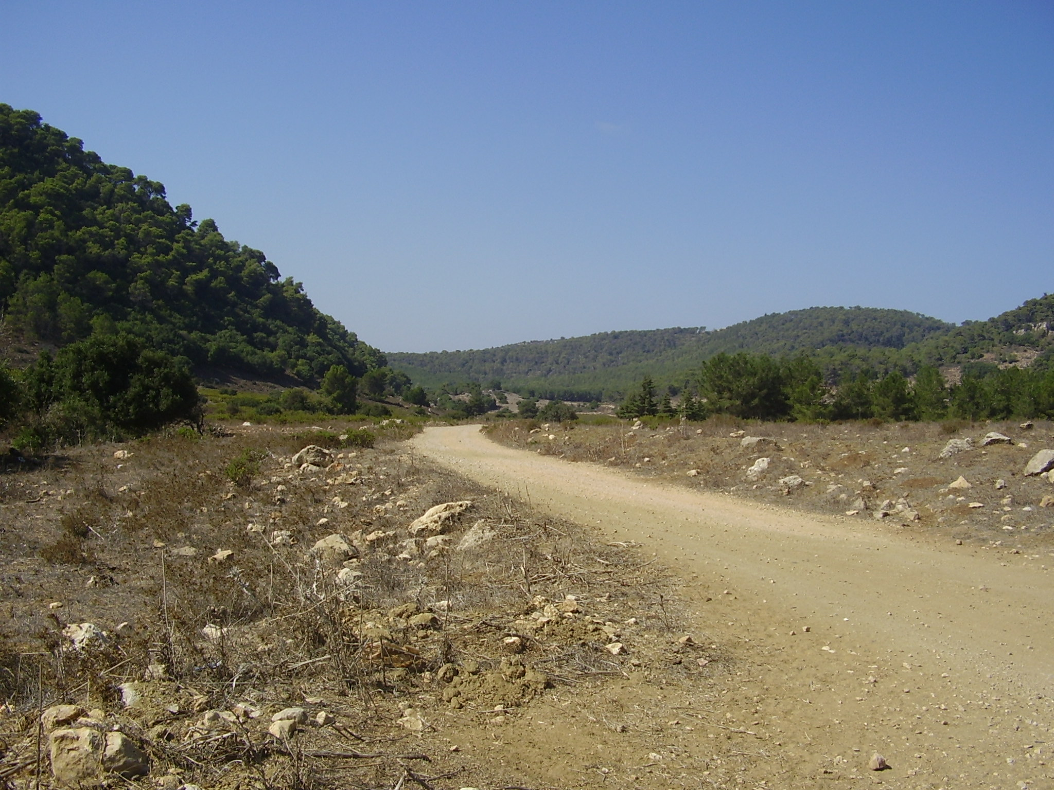 Mount Carmel